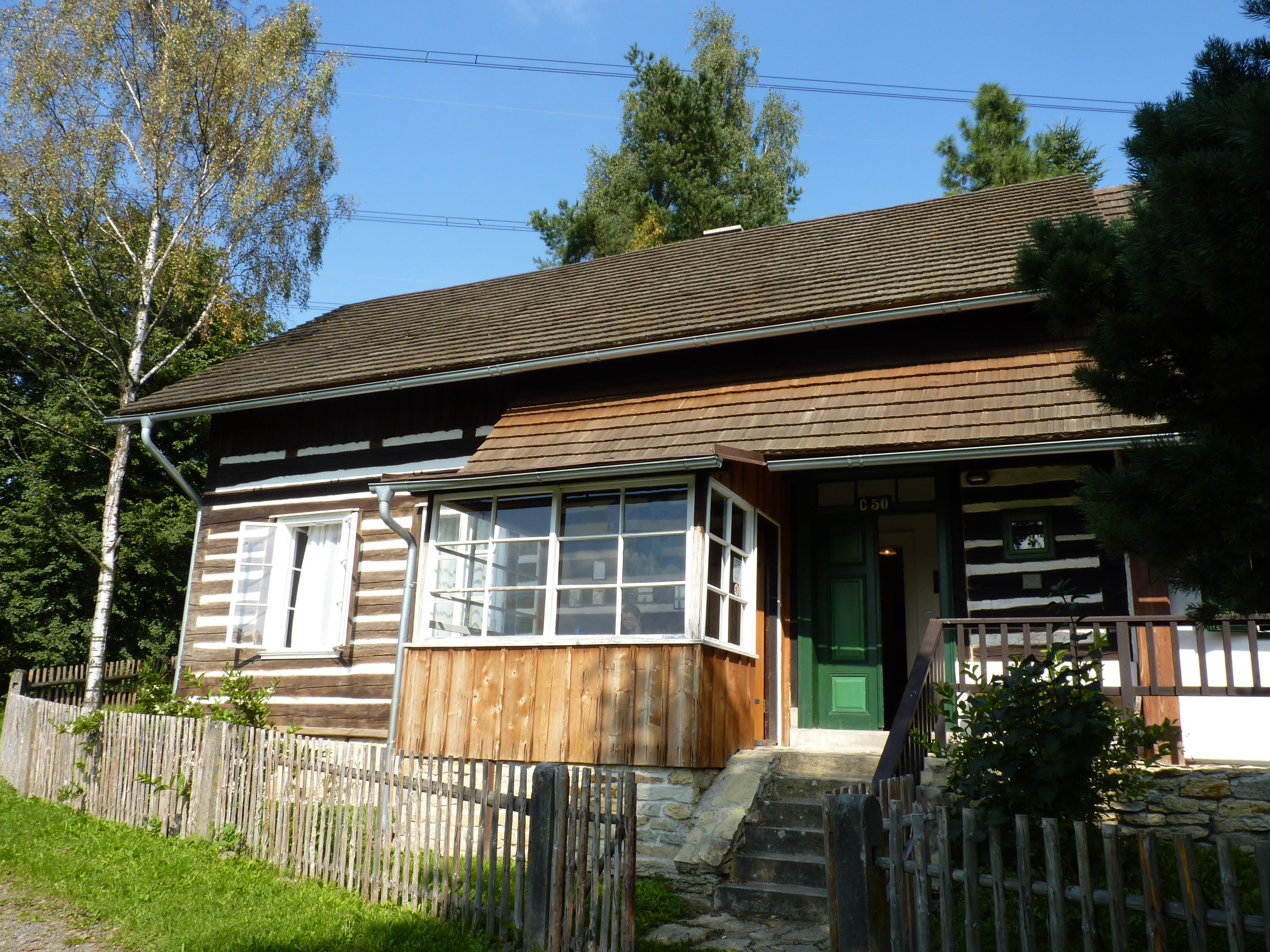 Kozlov (Česká Třebová), Max Švabinský´s cottage, Pardubice Region, Czech Republic